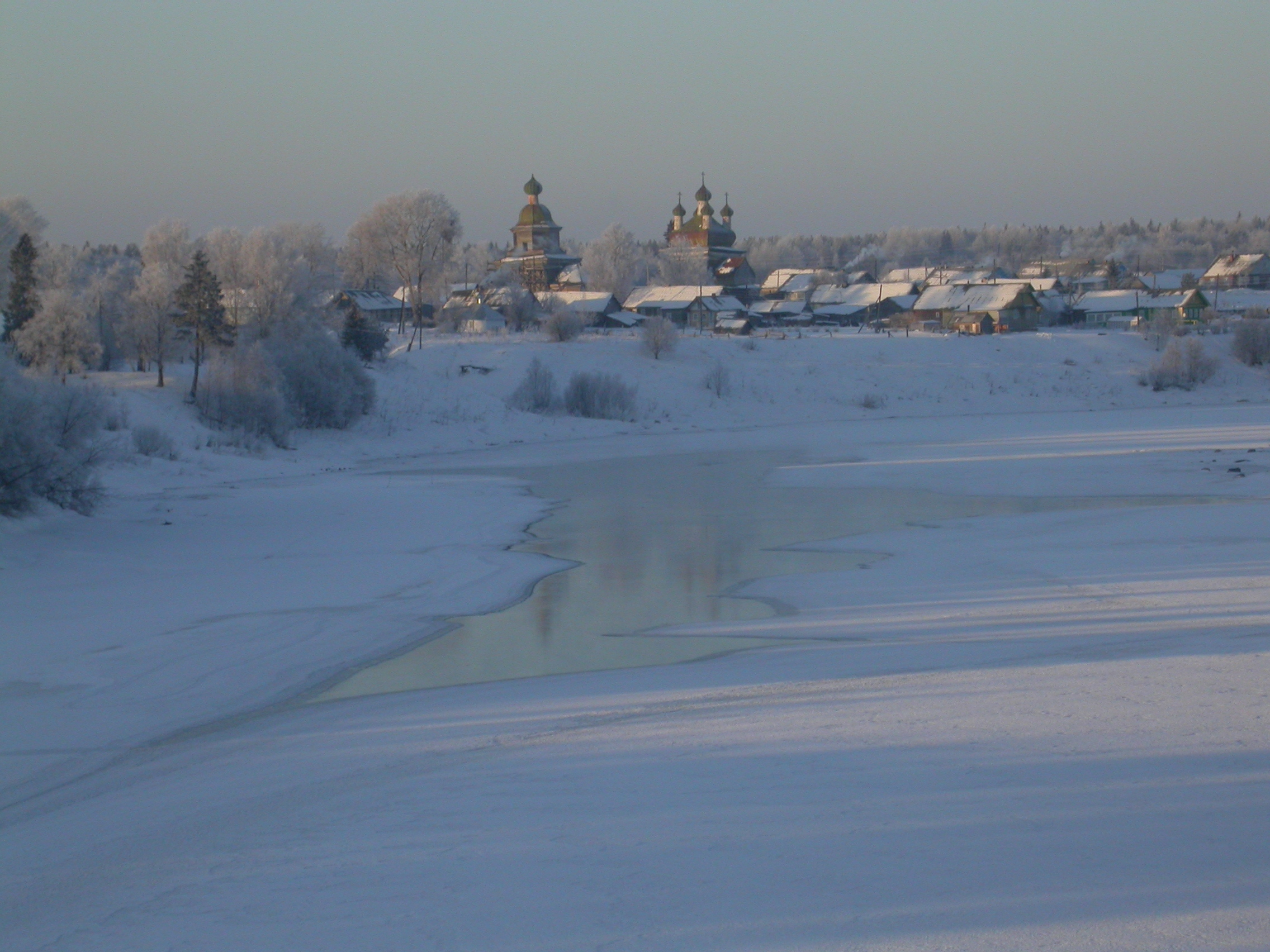 Kargopol (Russia)